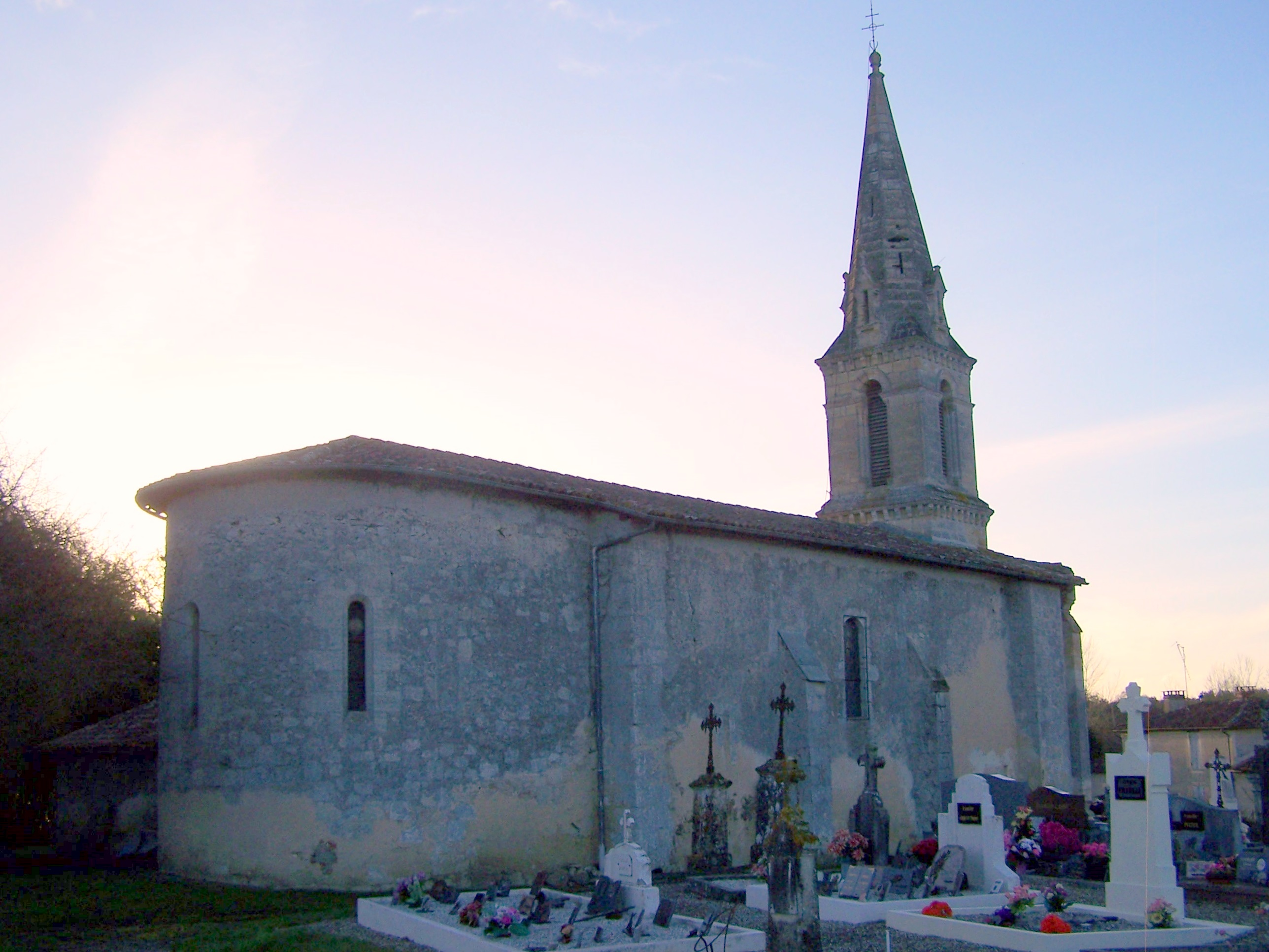 Apsis of the church of Lignan-de-Bazas (Gironde, France)